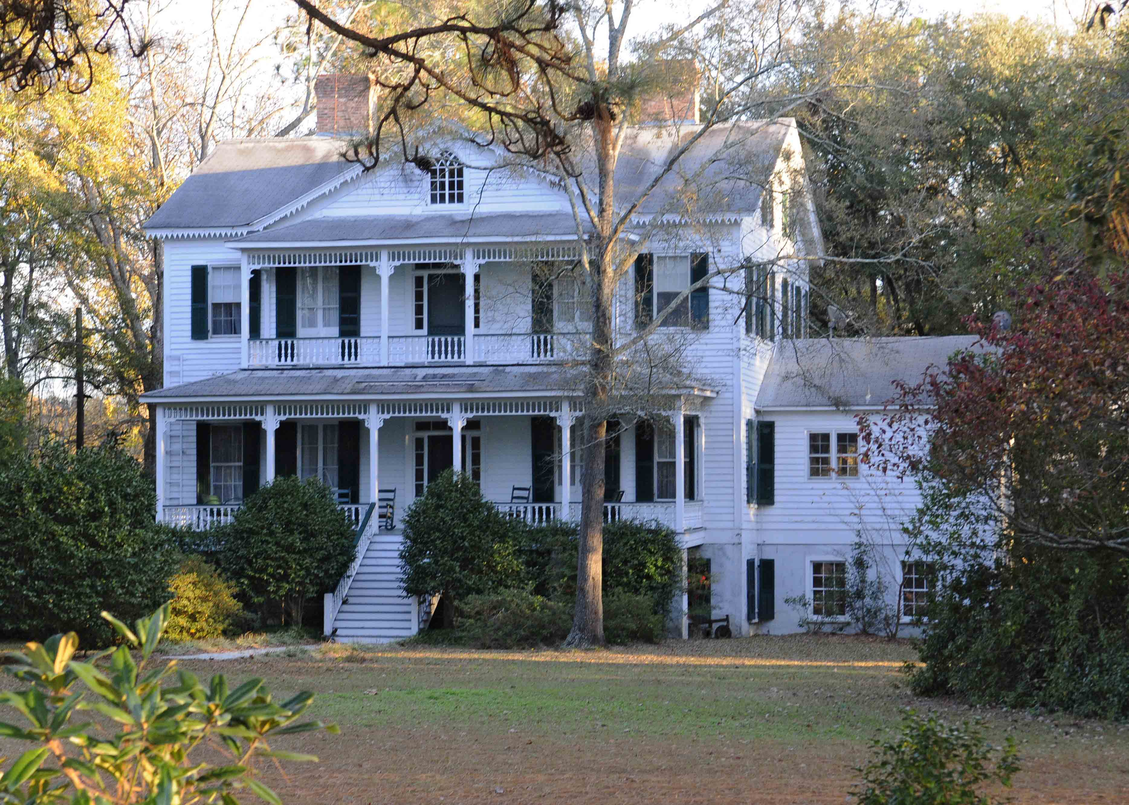 Appin, Marlboro County, South Carolina